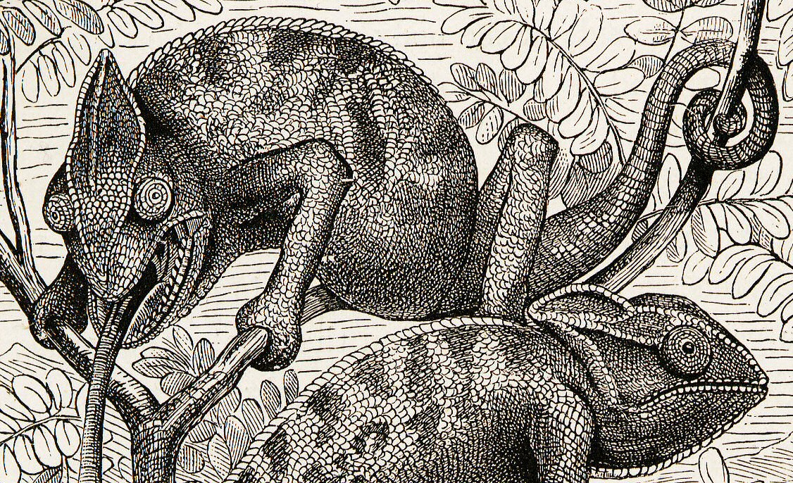 Detail of Chameleon image from Animal Coloration by Frank Evers Beddard 1892